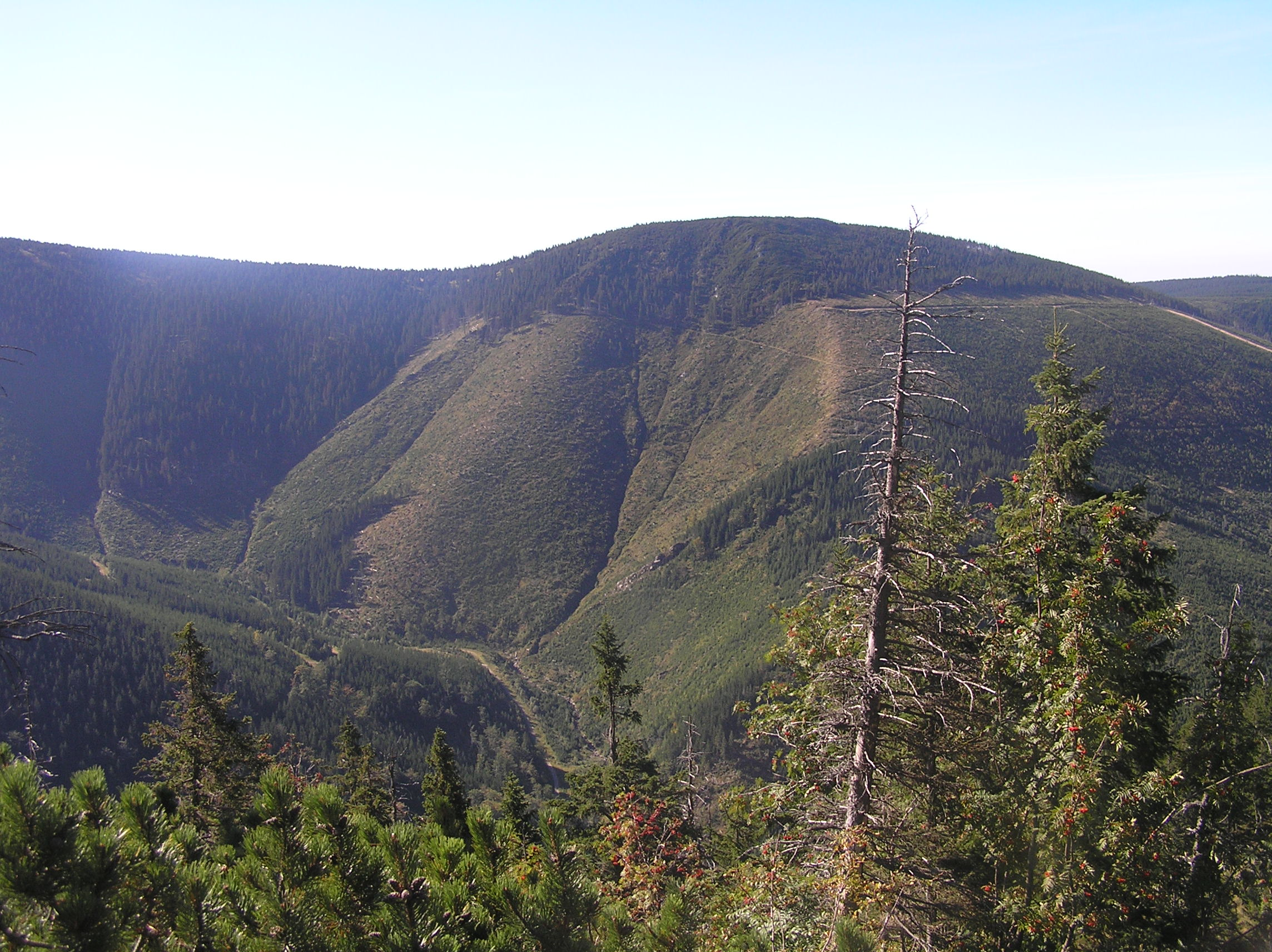 The hill Stoh and Dlouhý důl, Krkonoše, Czech Republic